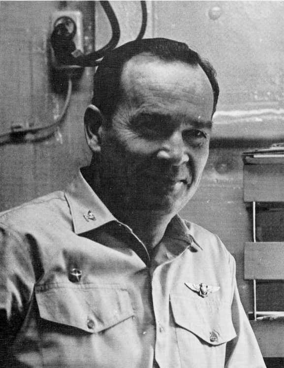 CAPT Vincent Patrick O'Rourke, US Navy.